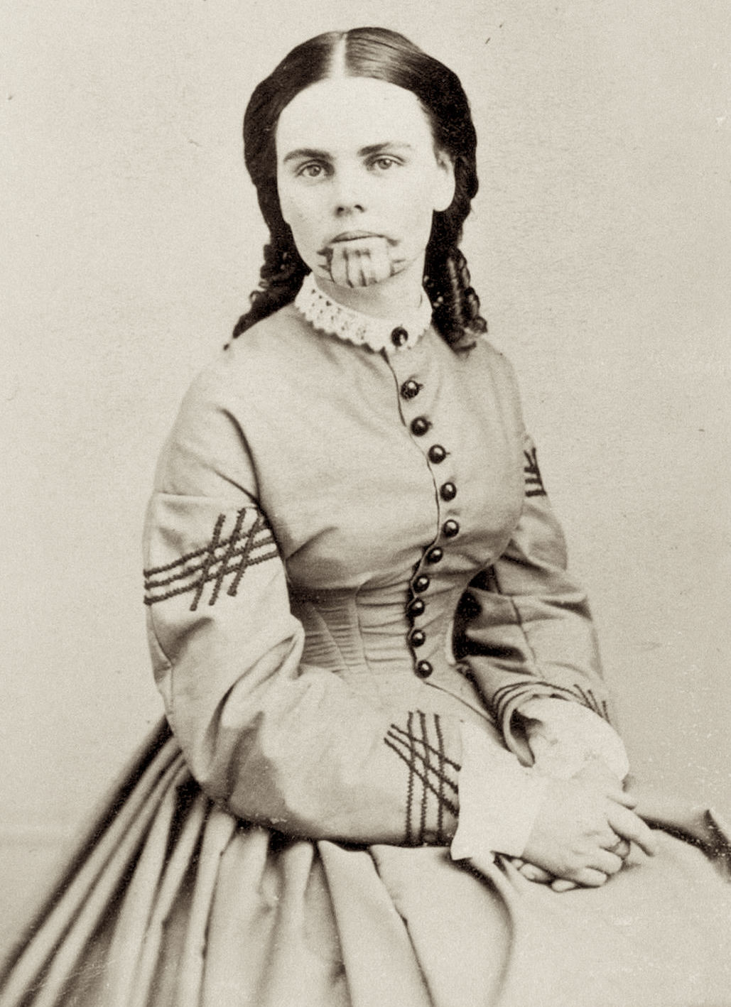 Olive Oatman 1838–1903, by Benjamin F. Powelson (1823–1885), Albumen silver print, c. 1863, National Portrait Gallery, Smithsonian Institution, Washington, D.C.